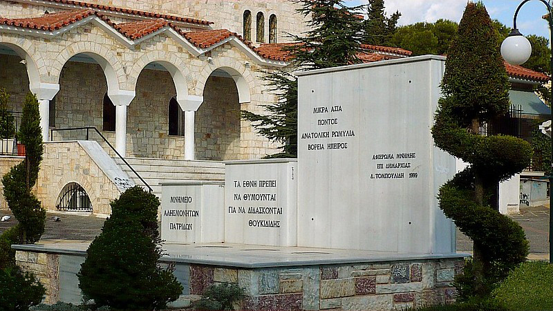 Melissia Tomb-Greece